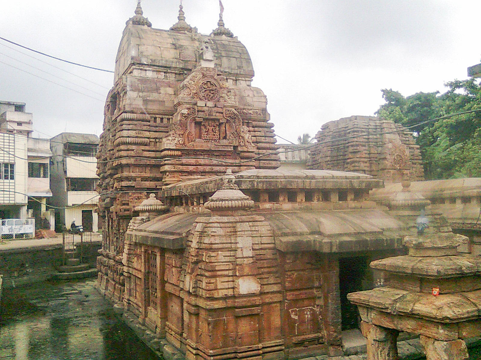 Vaitala deula of 7TH century in the capital city of Orissa,Bhuvaneshwar